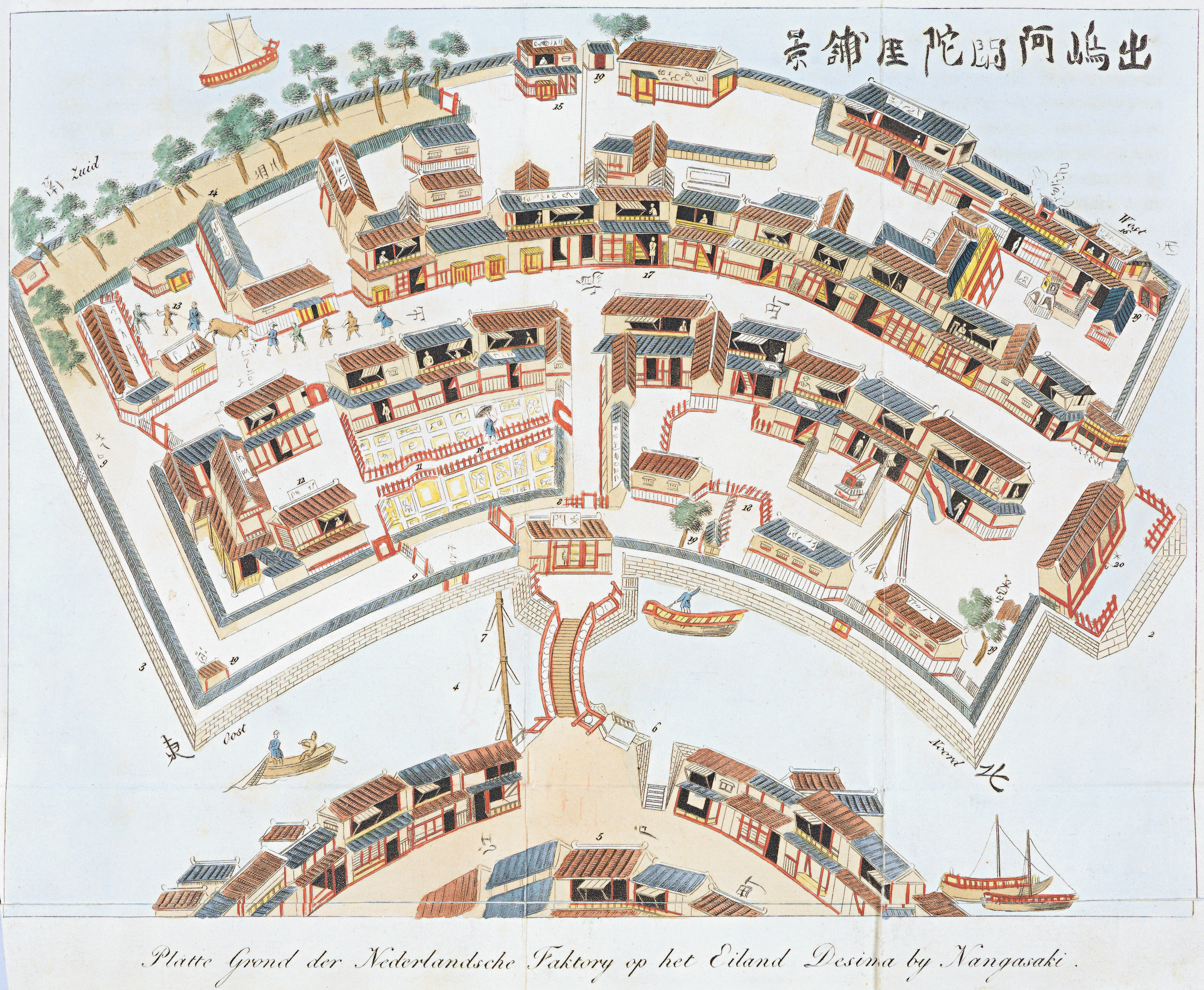 Ground-plan of the Dutch trade-post on the island Dejima at Nagasaki